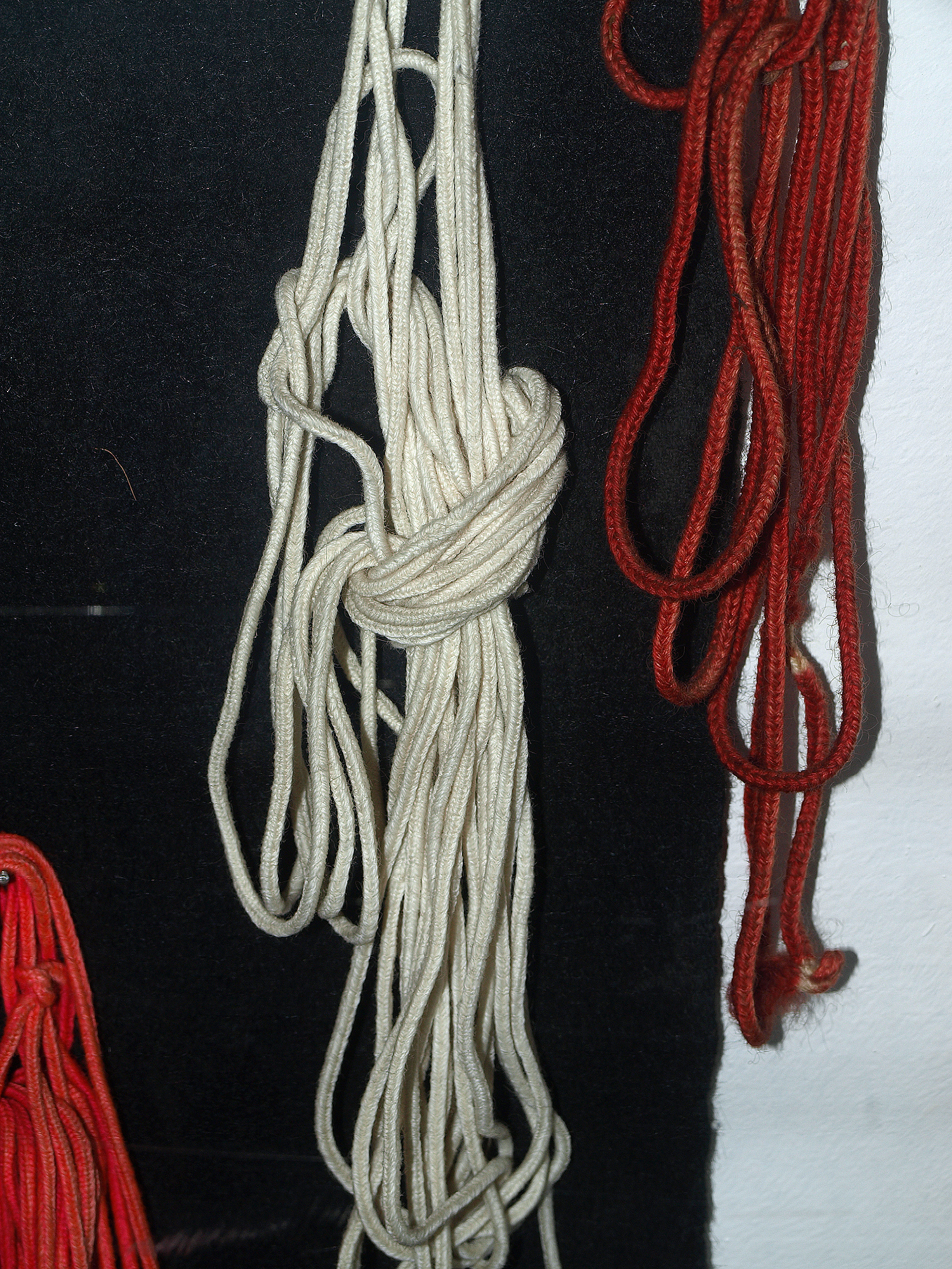 19th century braids for Thracian folk costumes (Ethnographic museum of Elhovo, Bulgaria